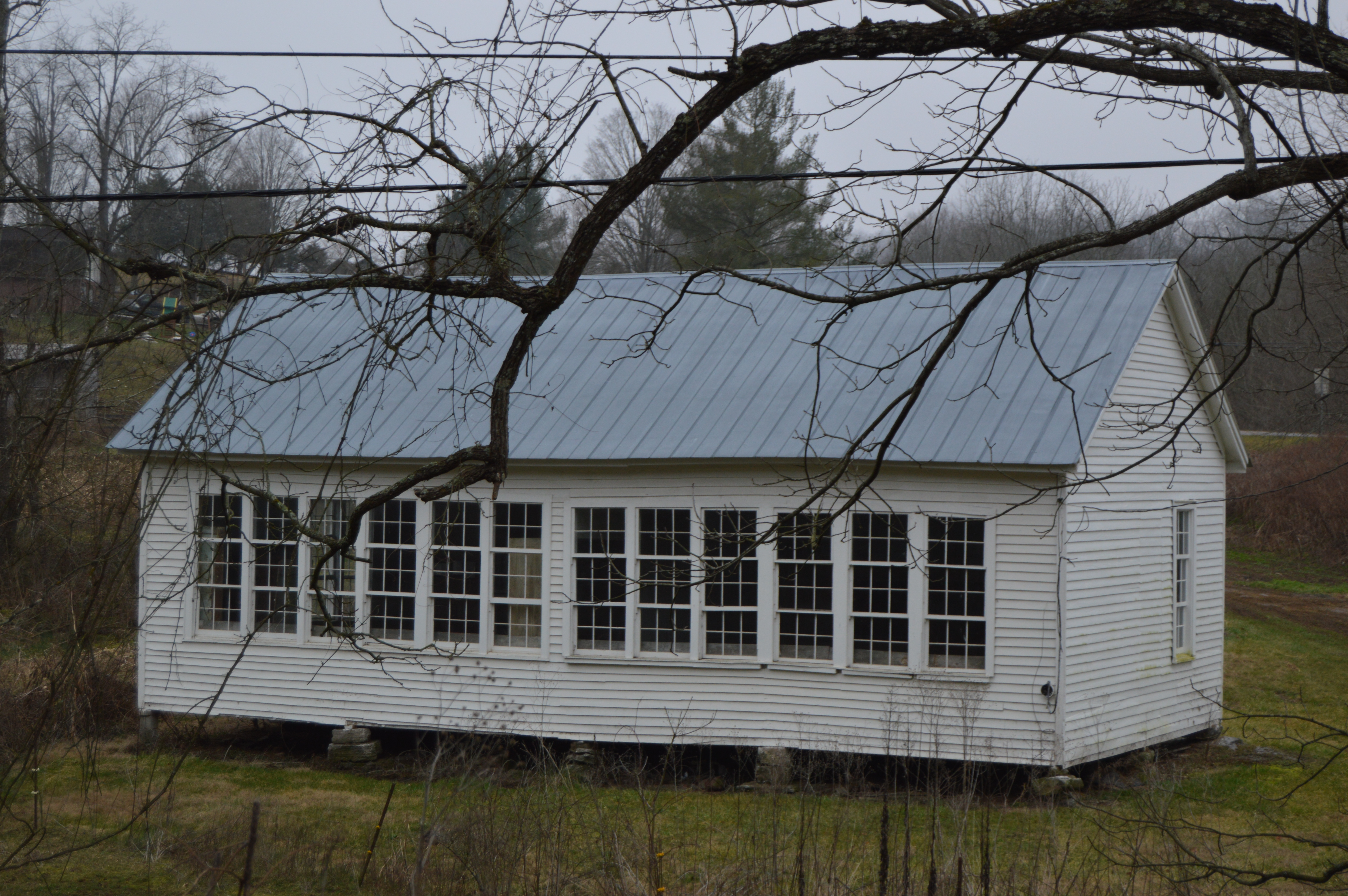 Front and northern end of the Mason-Dorton School, located at the junction of State Route 71 and Moccasin Ridge Road southwest of Dickensonville in Russell County, Virginia, United States. Built in 1885, it is listed on the National Register of Historic Places.